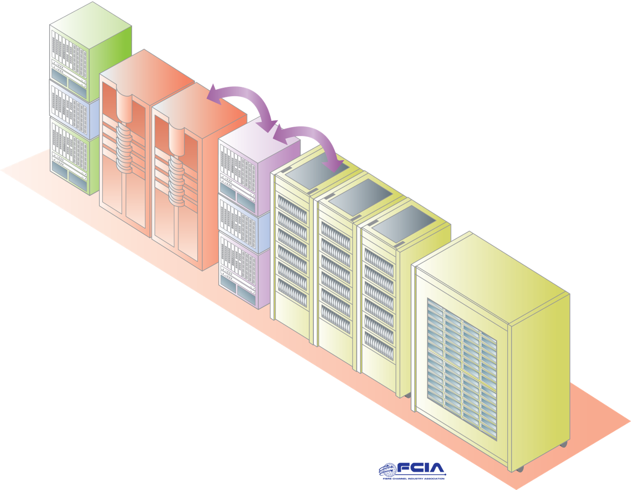 This storage area network (SAN) connects the yellow storage devices with the orange servers via the purple Fibre Channel Switches.